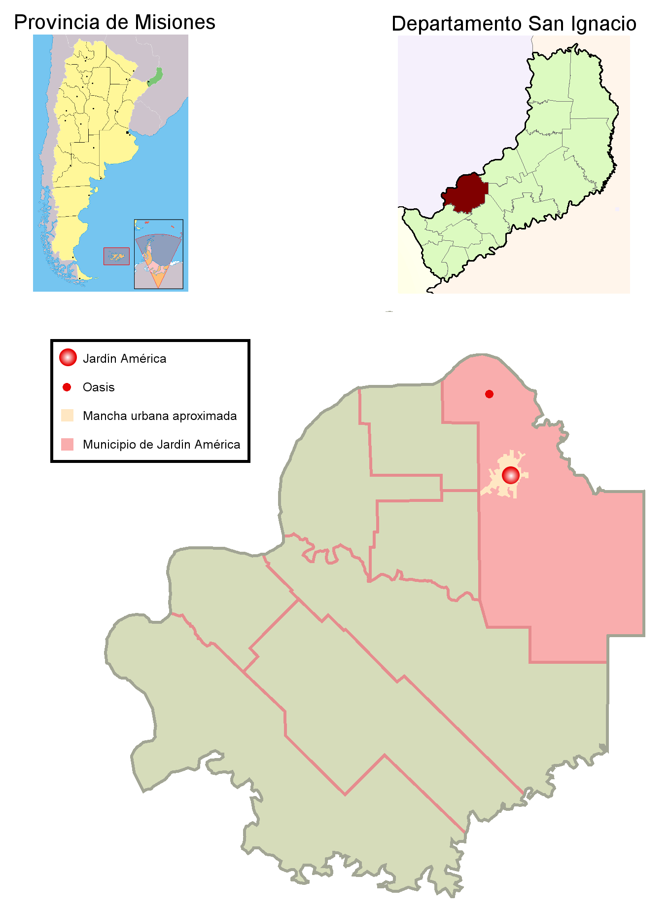 A map showing municipio of Jardín América in San Ignacio departament, Misiones province, Argentina. Also shows Jardín América town location, its urban sector and Oasis town location. Created with GIMP.